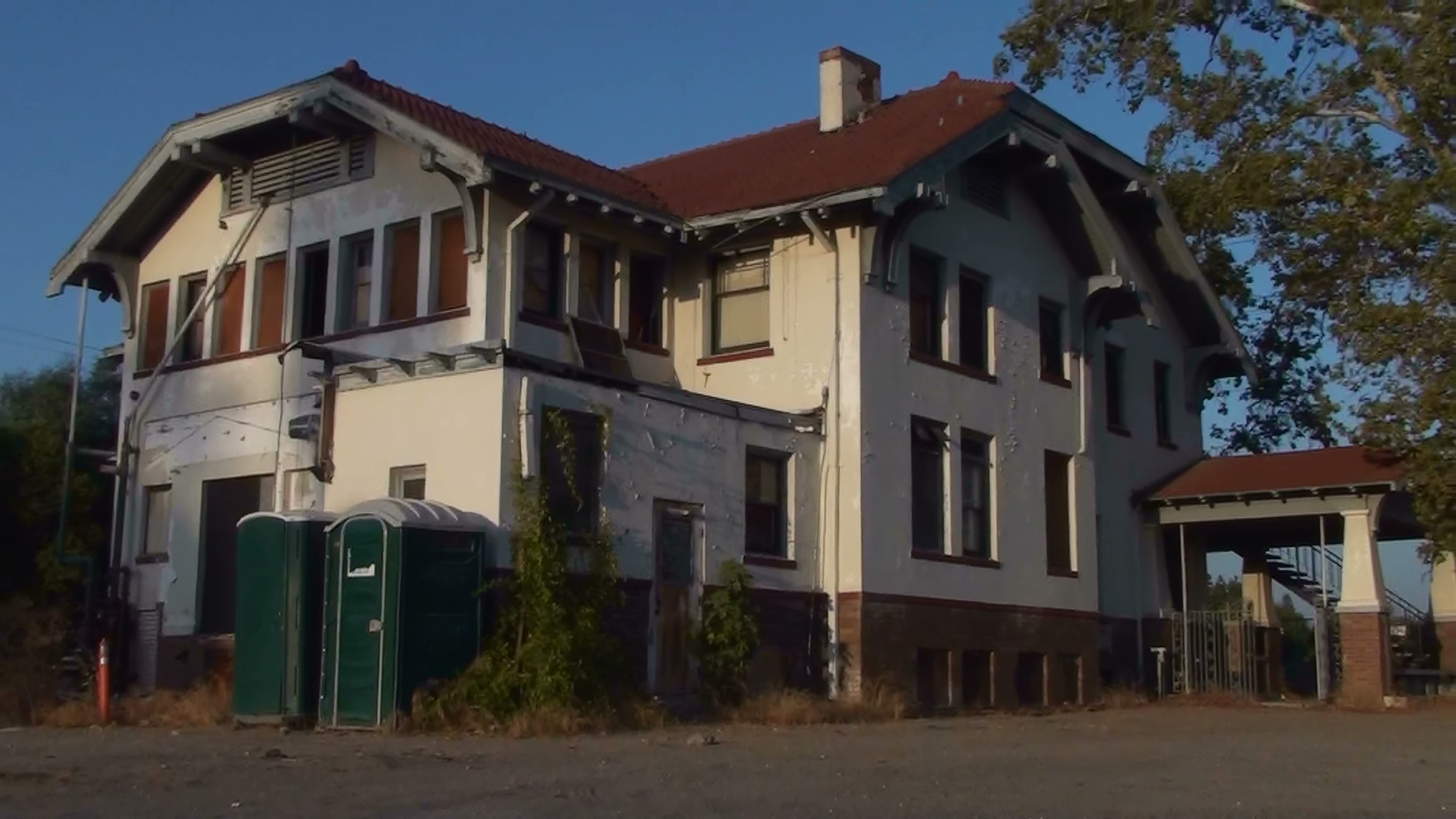 View of the Wolfe manor in Clovis, CA from the property.